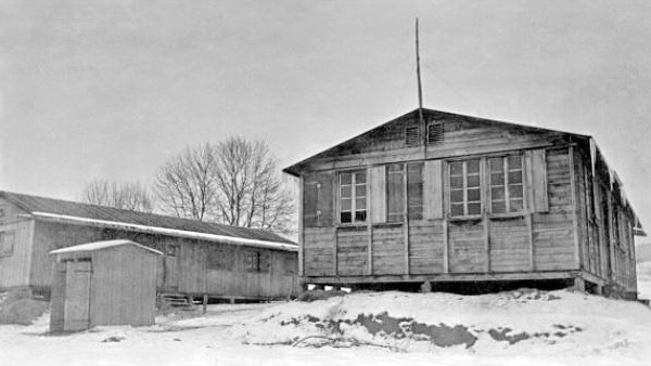 Wauwilermoos internment camp assumably in winter 1944/45, Egolzwil-Wauwil, Canton of Luzern.